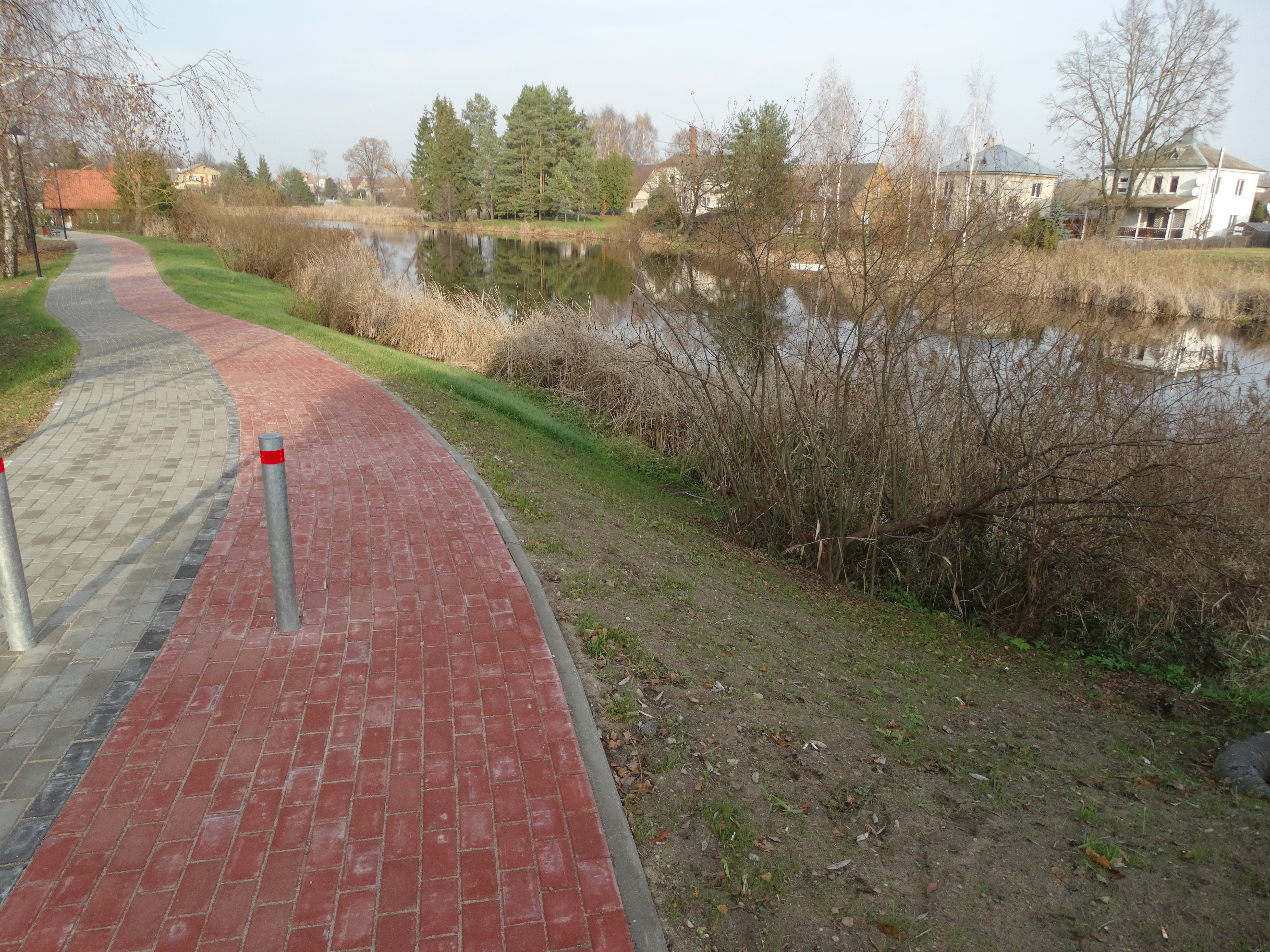 Apaščia River, Biržai , Lithuania